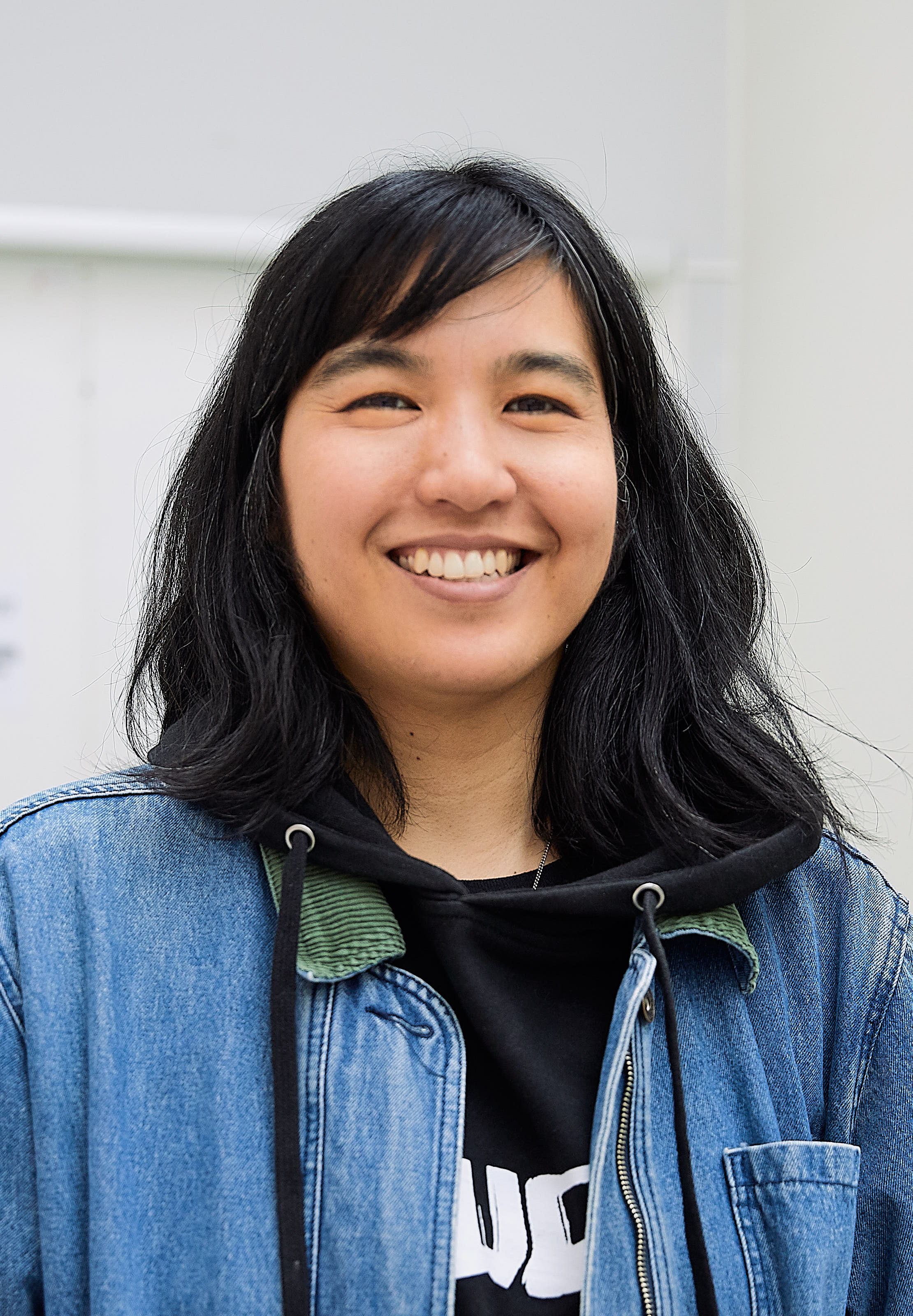 Canadian comics creator Jillian Tamaki was the guest of honor at the Stockholm International Comics Festival in February 2019.